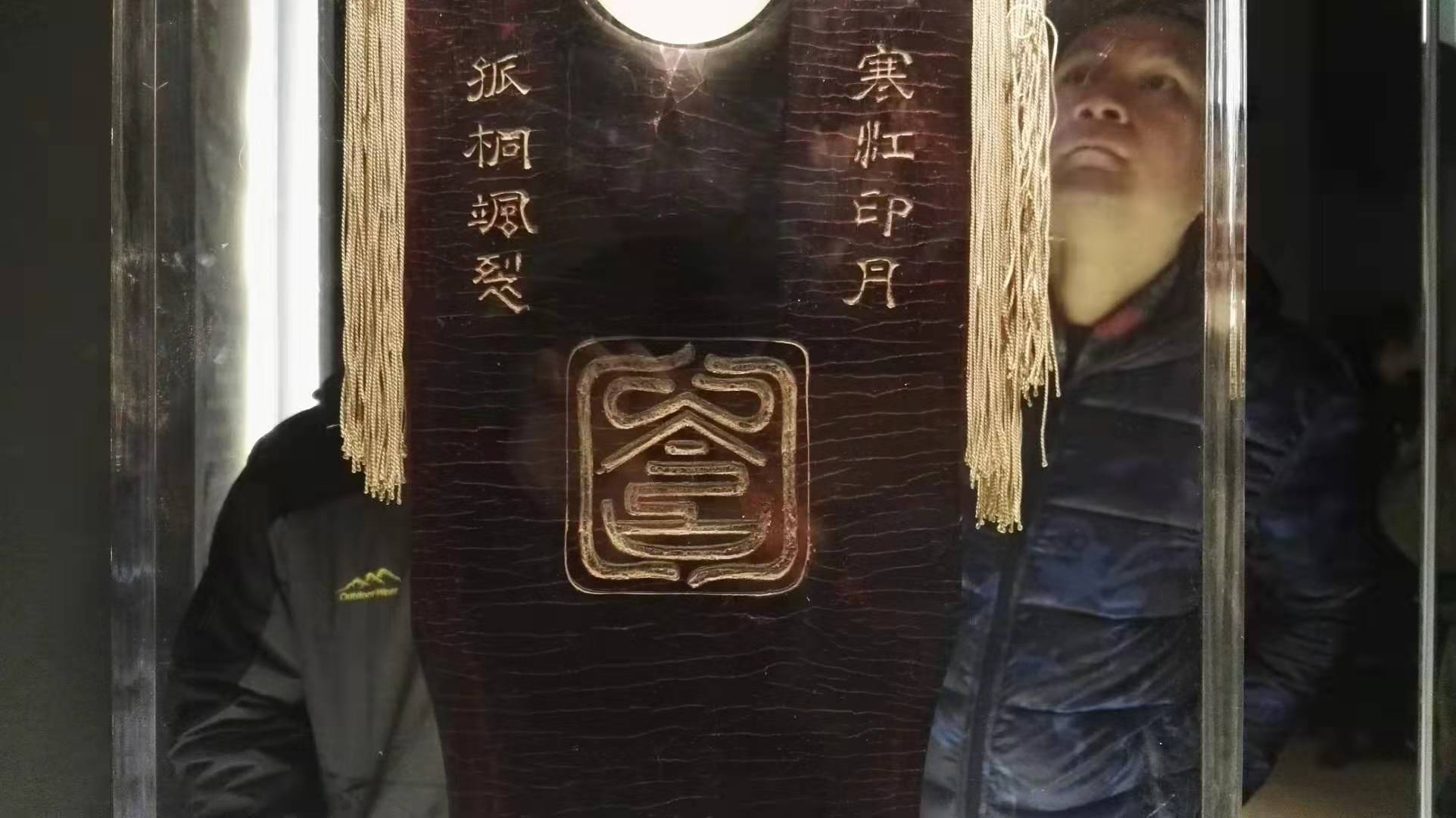 several stamps on the back of guqin Dasheng Yiyin